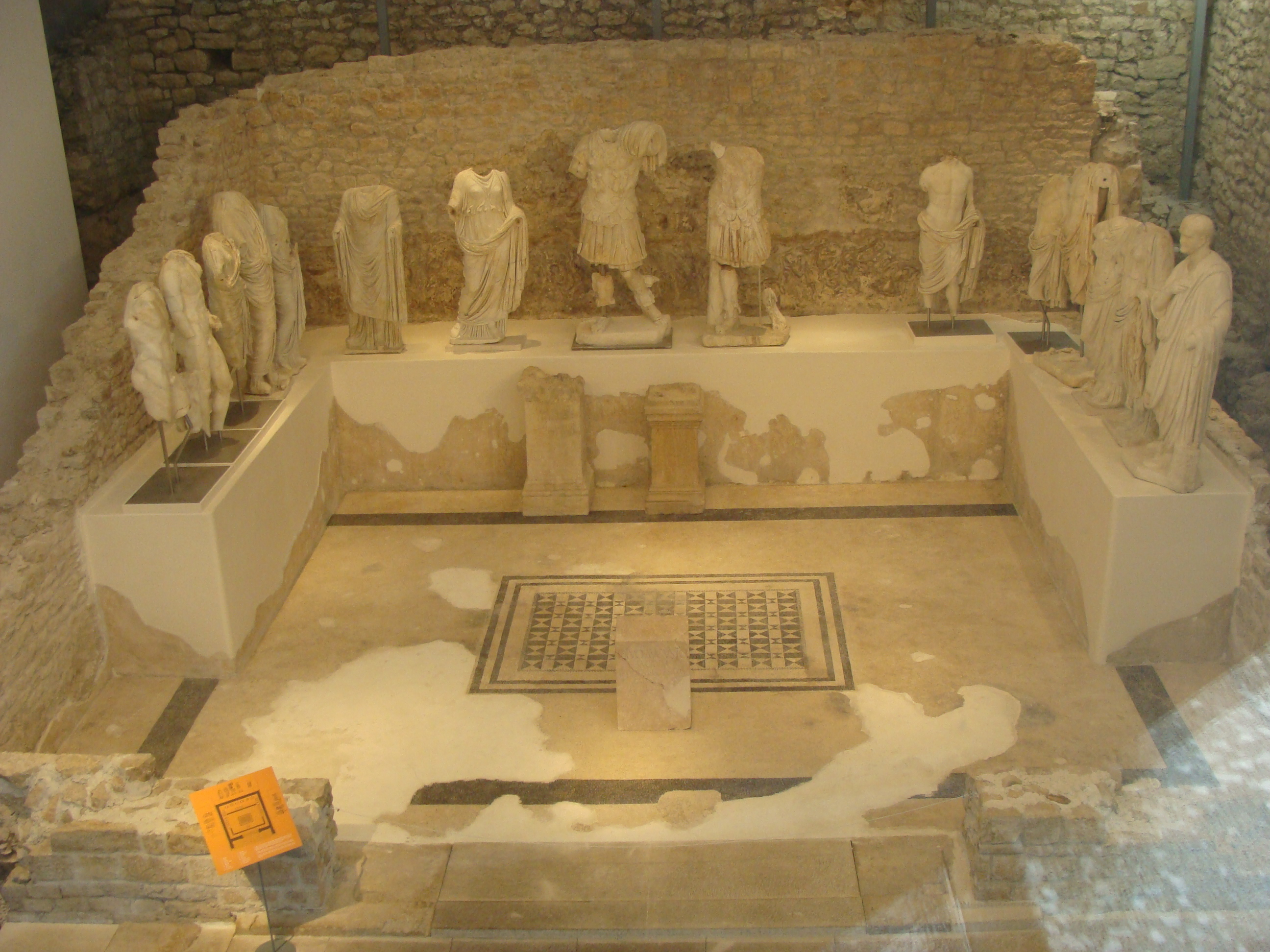 Reconstucted Roman temple Augustum dedicated to Emperor August in 1st century AD in Narona, contemporary Vid near Metković, Croatia. Photograph from outside of the new Archeological Musem of Narona (2007.)